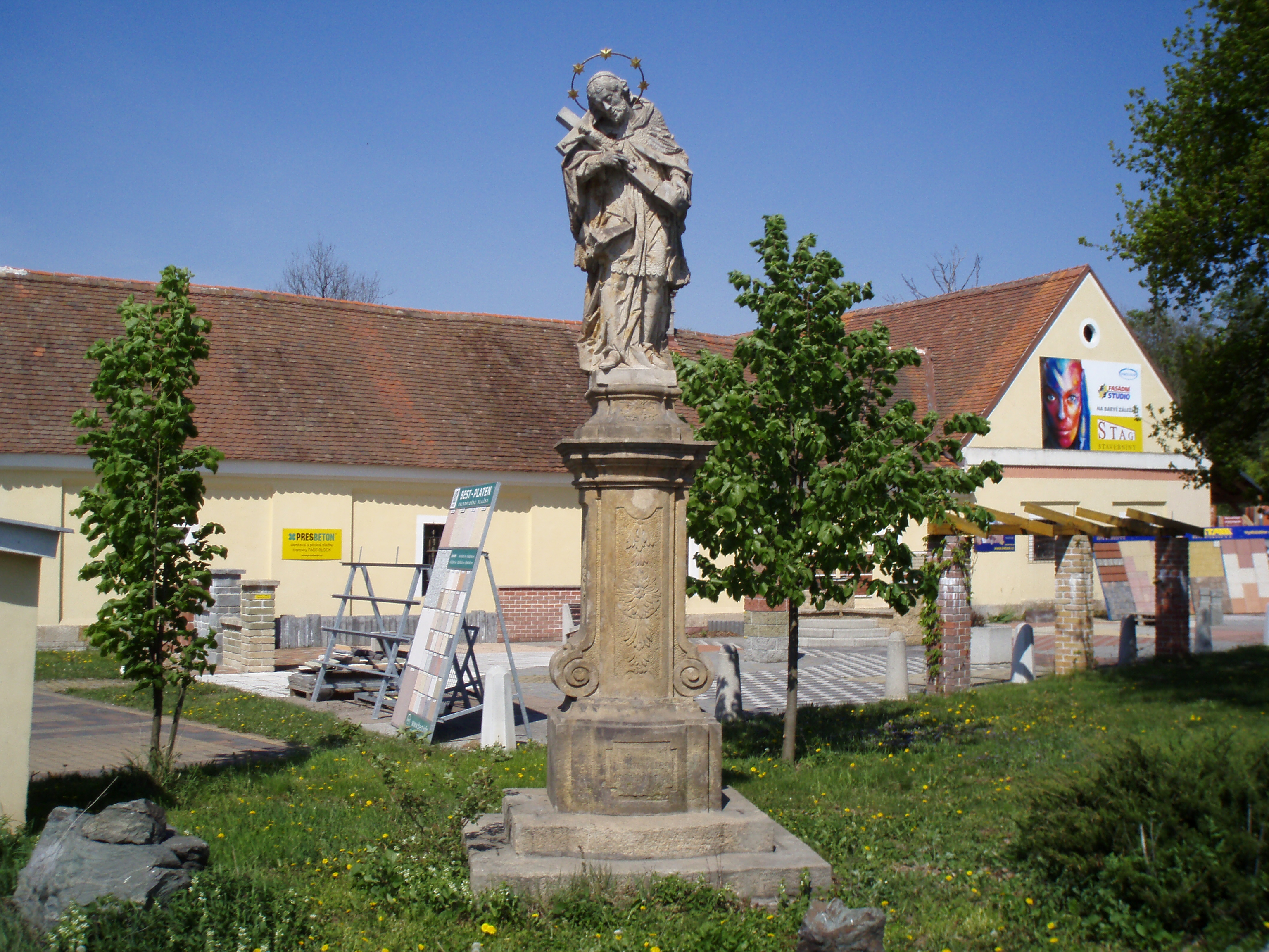 Statue of St. John of Nepomuk in Správčice (Hradec Králové, Czechia)